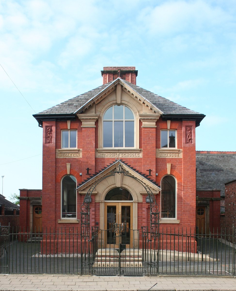 Former Wesleyan Methodist Schools, now Methodist Church, Hospital Street, Nantwich, Cheshire